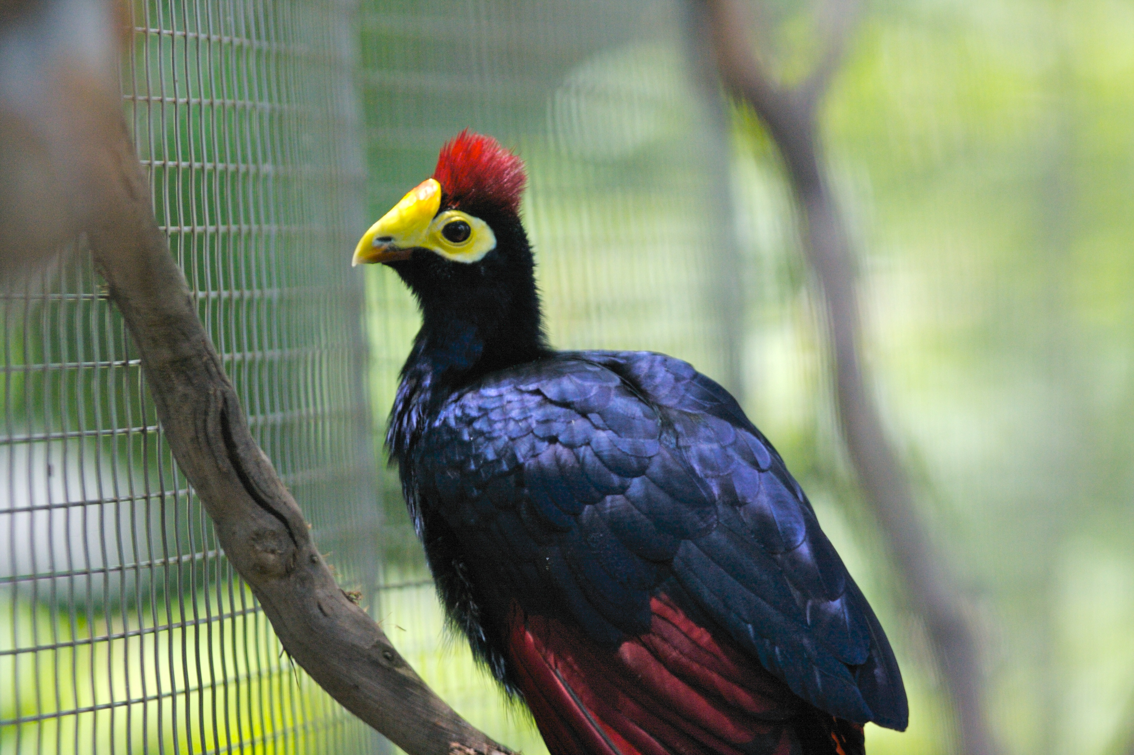 Lady Ross's Turaco (Musophaga rossae) in Columbus Zoo